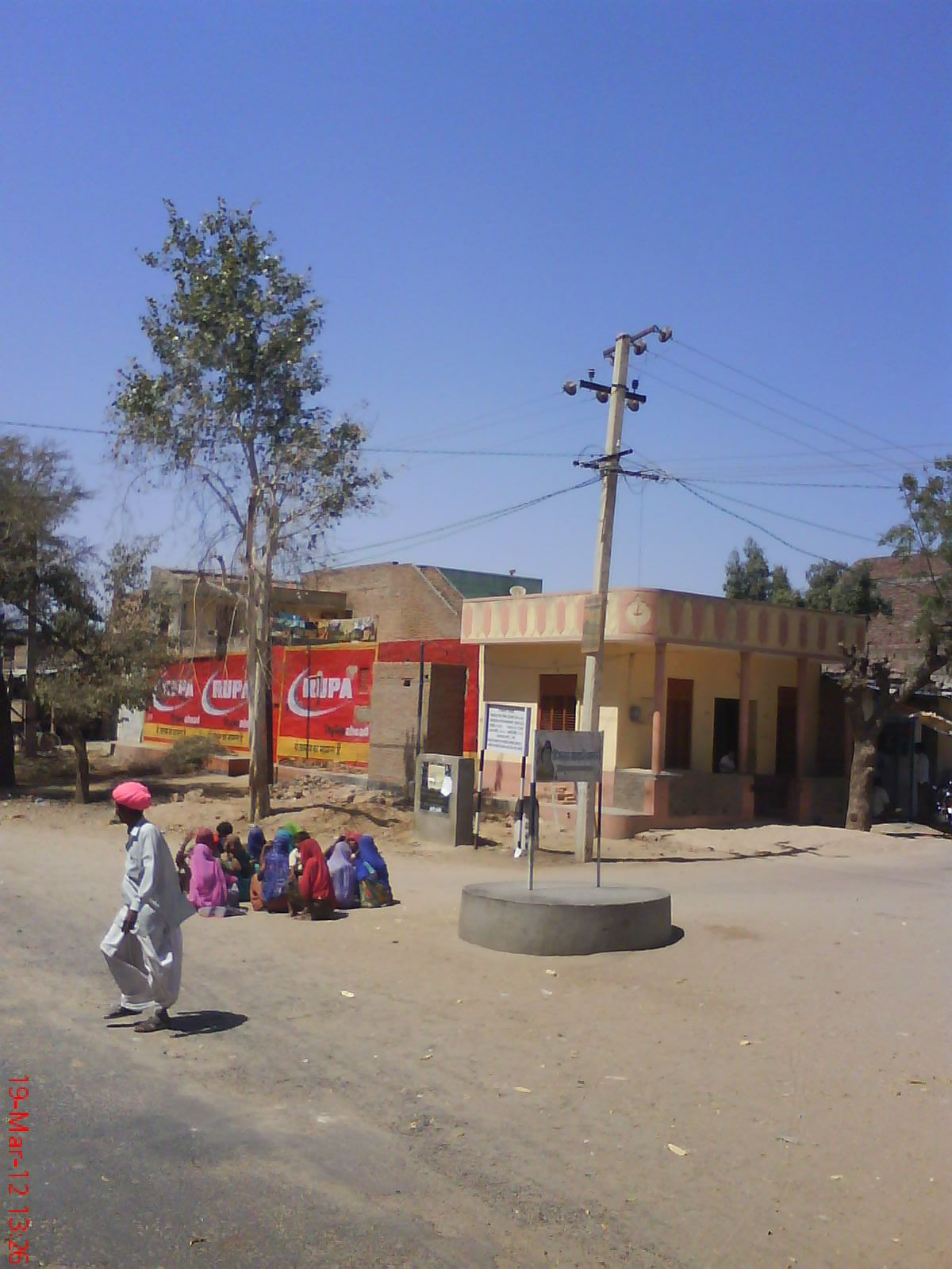 Charli Bus Stop, SH16, Jalore district